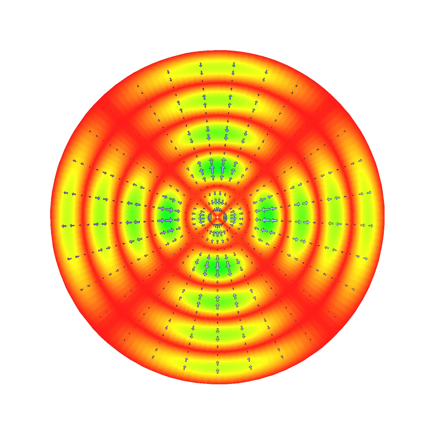 Plot of E and H fields on the TEnl mode defined by n and l.